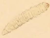 Stainton’s Natural History of the Tineina (1855–1873): Eriocrania salopiella